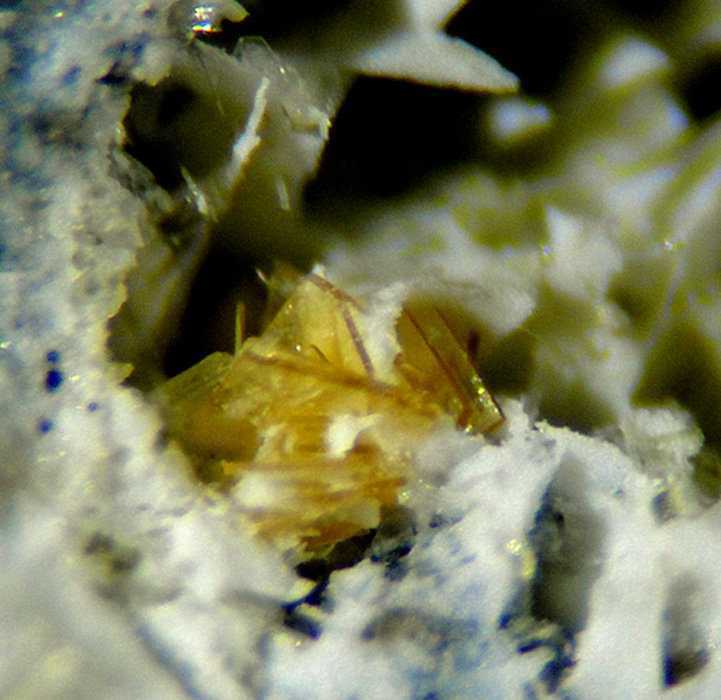 Cafetite, Lizardite Base 0,7 mm Locality: Val di Serra Quarry, Pilcante, Ala, Lagarina Valley, Trento Province, Trentino-Alto Adige (Trentino-Südtirol), Italy Original description: Collection and photo Giorgio Bortolozzi